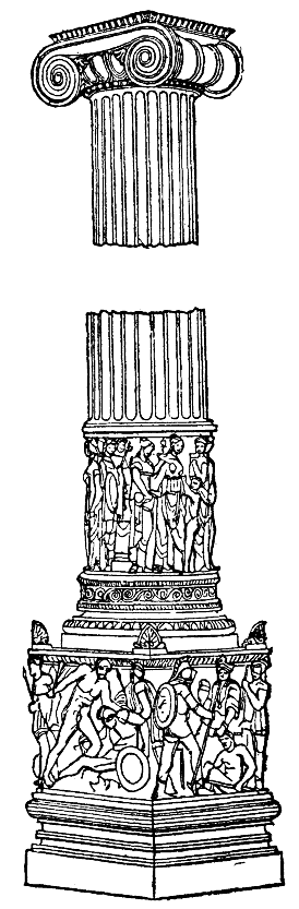 Column from the Artemision, Ephesos.